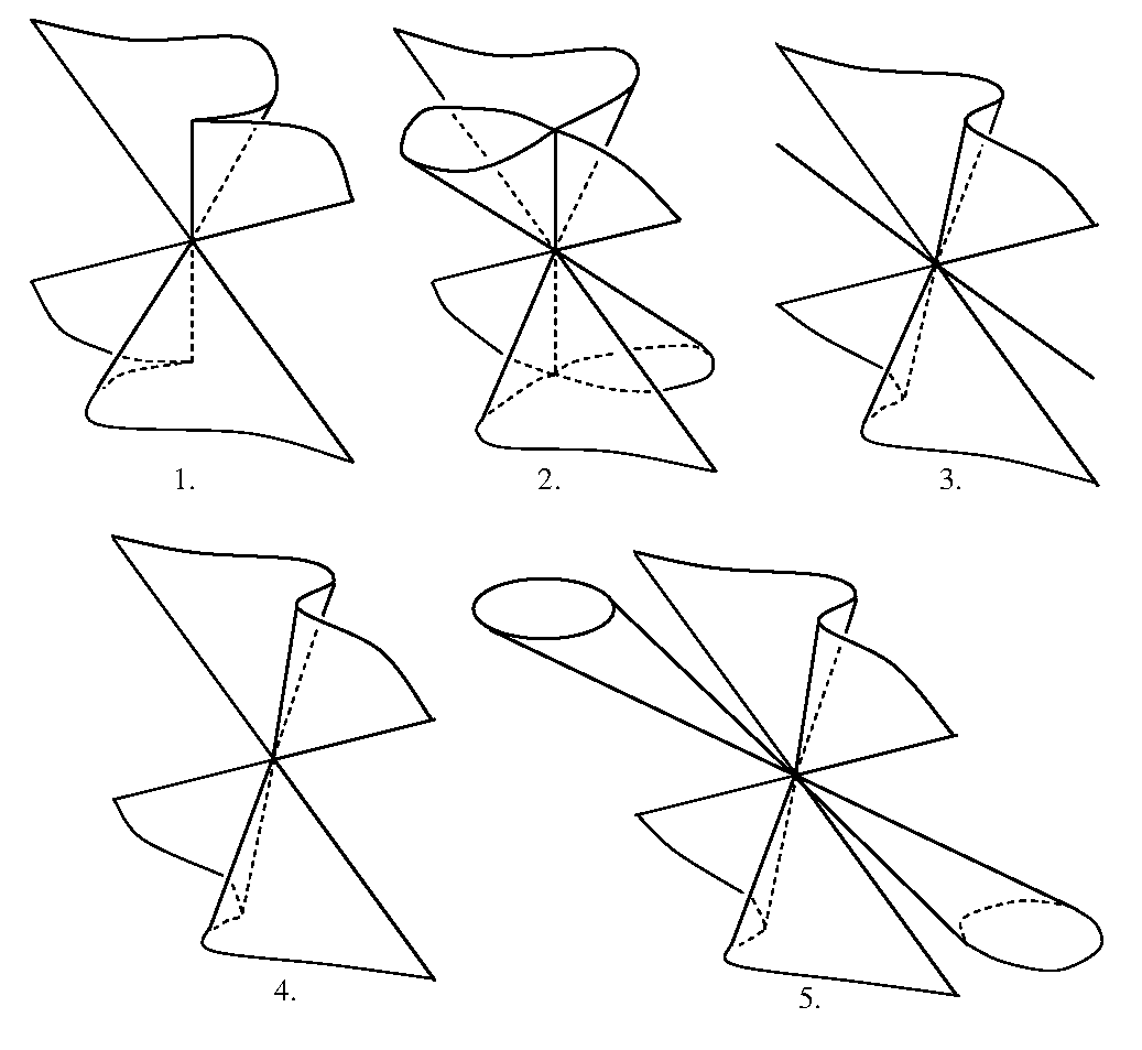 Five standard cones of the third degree are shown.